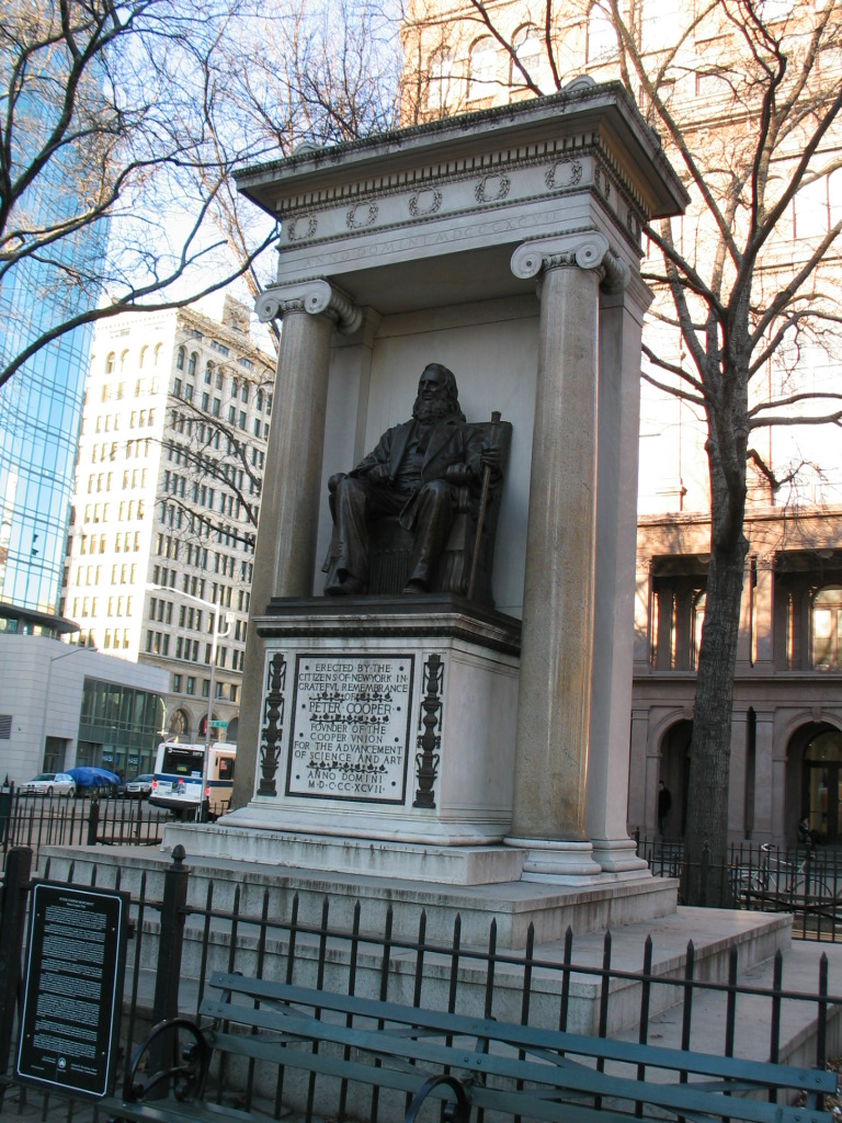 The monument to Peter Cooper, the founder of the Cooper Union College.